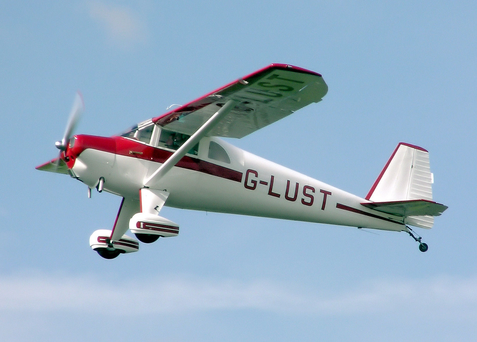 Luscombe Silvaire 8e (UK registration G-LUST, date of build 1947) at Kemble Airfield, Gloucestershire, England. Photographed by Adrian Pingstone in July 2005 at a PFA Rally and released to the public domain.